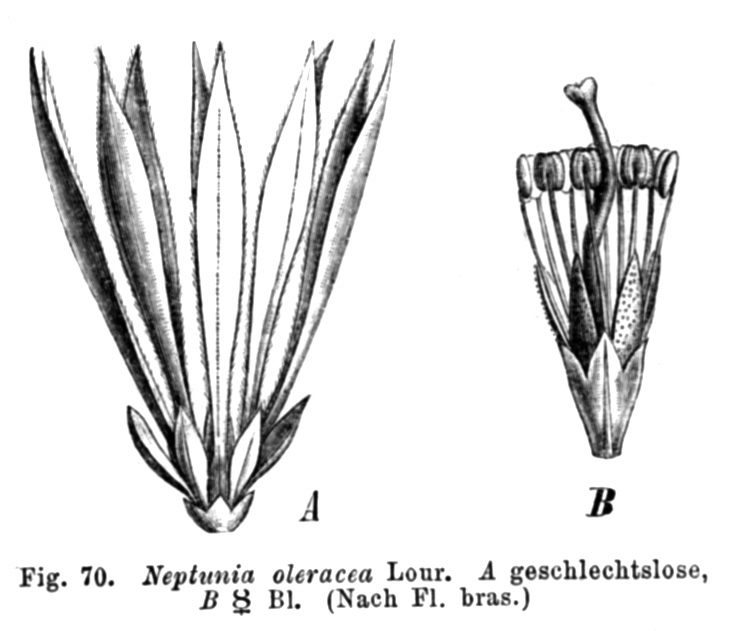 Illustration from book